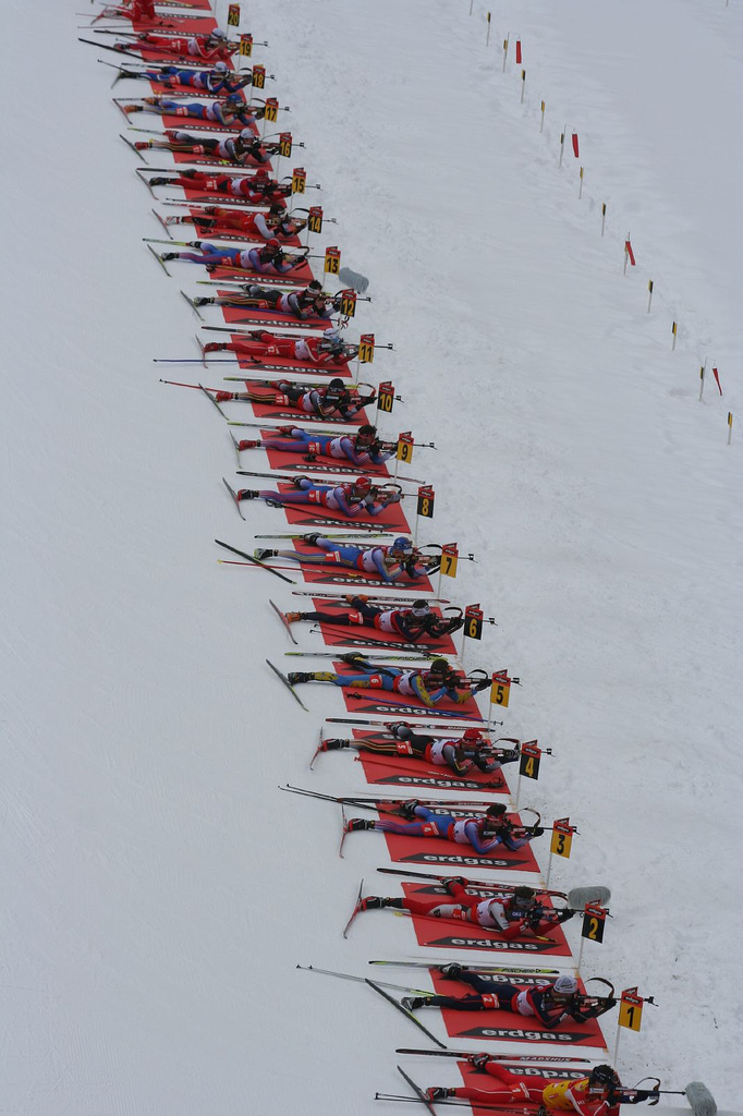 Firing squad! Shooting after the first lapMassing shooting